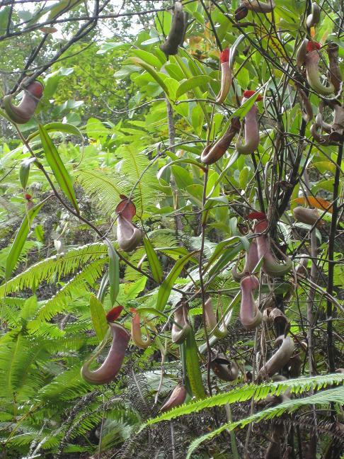 Nepenthes albomarginata from Penang, Peninsular Malaysia. Picture by David Tan (